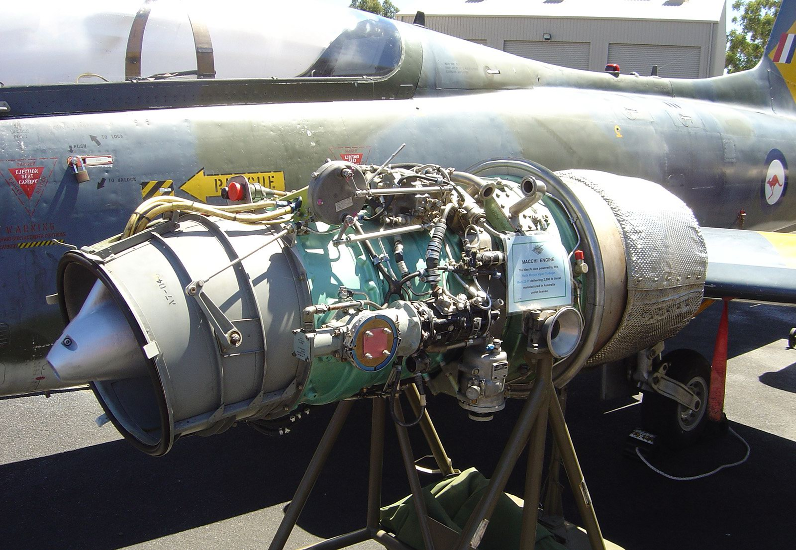 Taken by JAW 21 Nov 2005 Rolls Royce Viper Turbojet from a RAAF "Macchi" (Aermacchi MB-326).